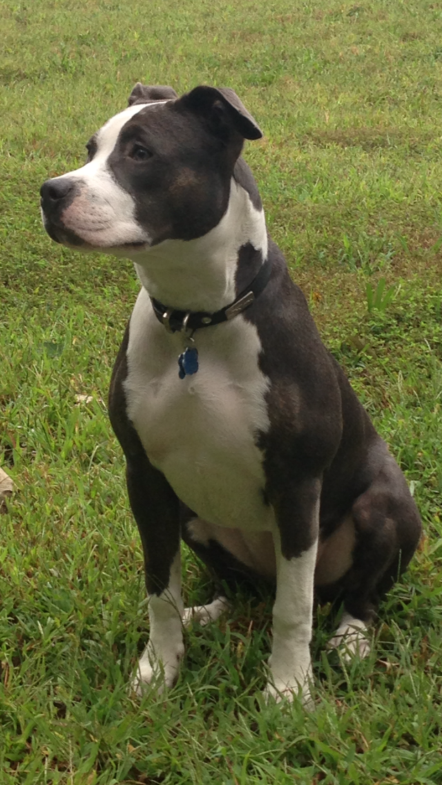 Amstaff female